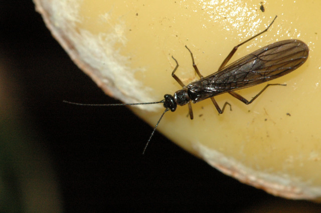 Picture taken in Commanster, Belgian High Ardennes . Species: Nemoura cinerea